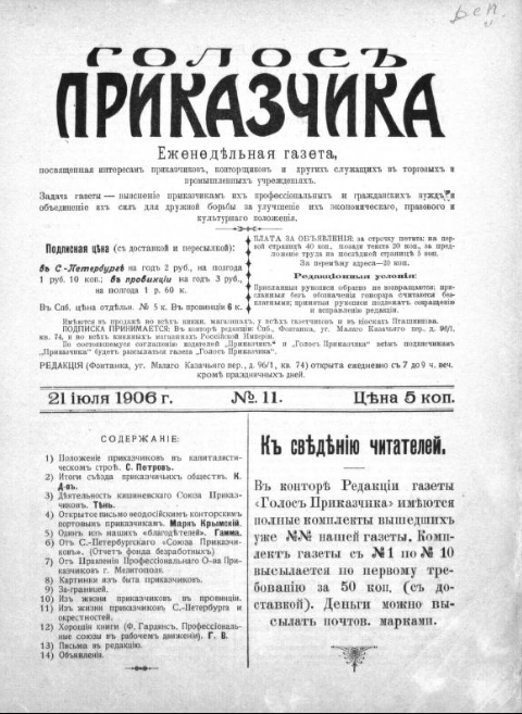 Cover of Голосъ Приказчика 21 July 1906 Number 11